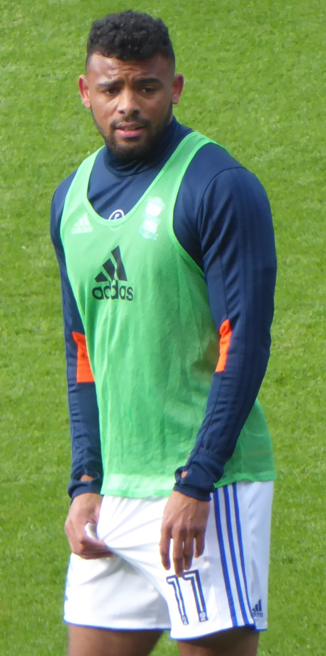 Isaac Vassell warming up before playing for Birmingham City F.C. at St Andrew's on 29 October 2017